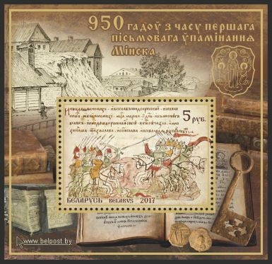 950th anniversary of the mention of Minsk in written form.